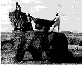 Cangzhou Iron lion histrical picture